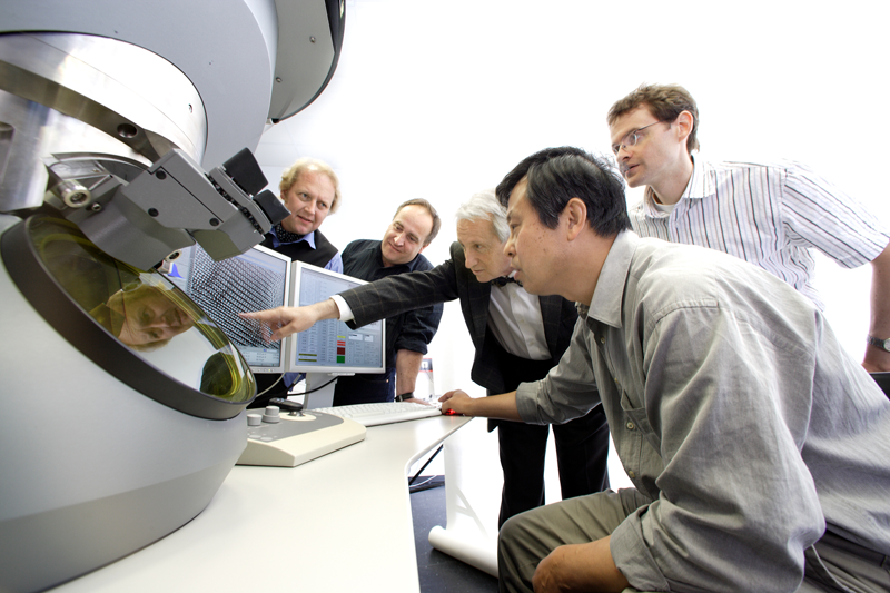 ER-C director Knut Urban and his staff discuss the atomic structure of an oxide thin layer system revealed in an electron micrograph taken with one of the ER-C's Titan 80-300 instruments.